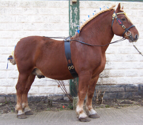 Suffolk Stallion